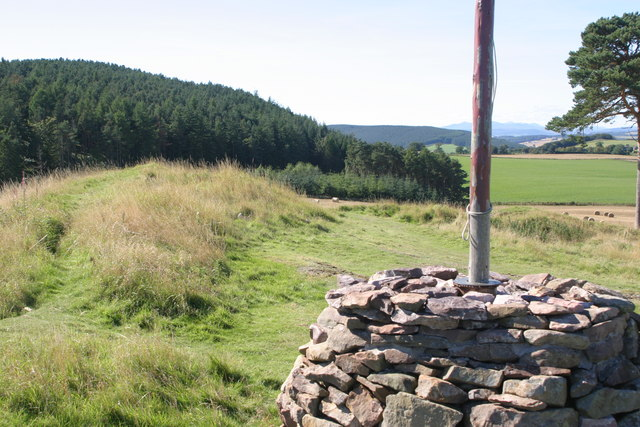 Top of Ormond Hill. In 1197, Sir Andrew de Moray raised his Standard at his castle at this very point. This became known as the North Rising. Men under his leadership then travelled to join William Wallace at the famous Battle of Stirling Bridge where the English Army were defeated.